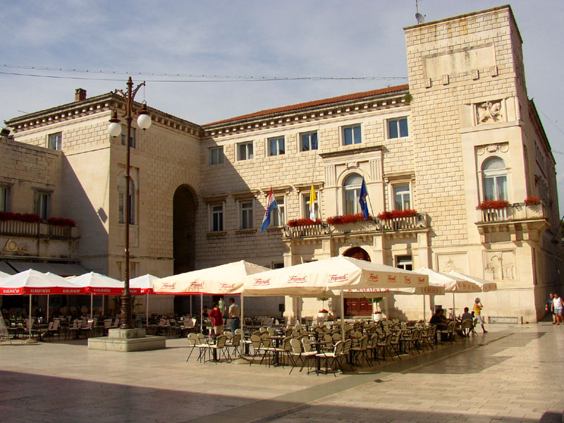 City Hall in Zadar